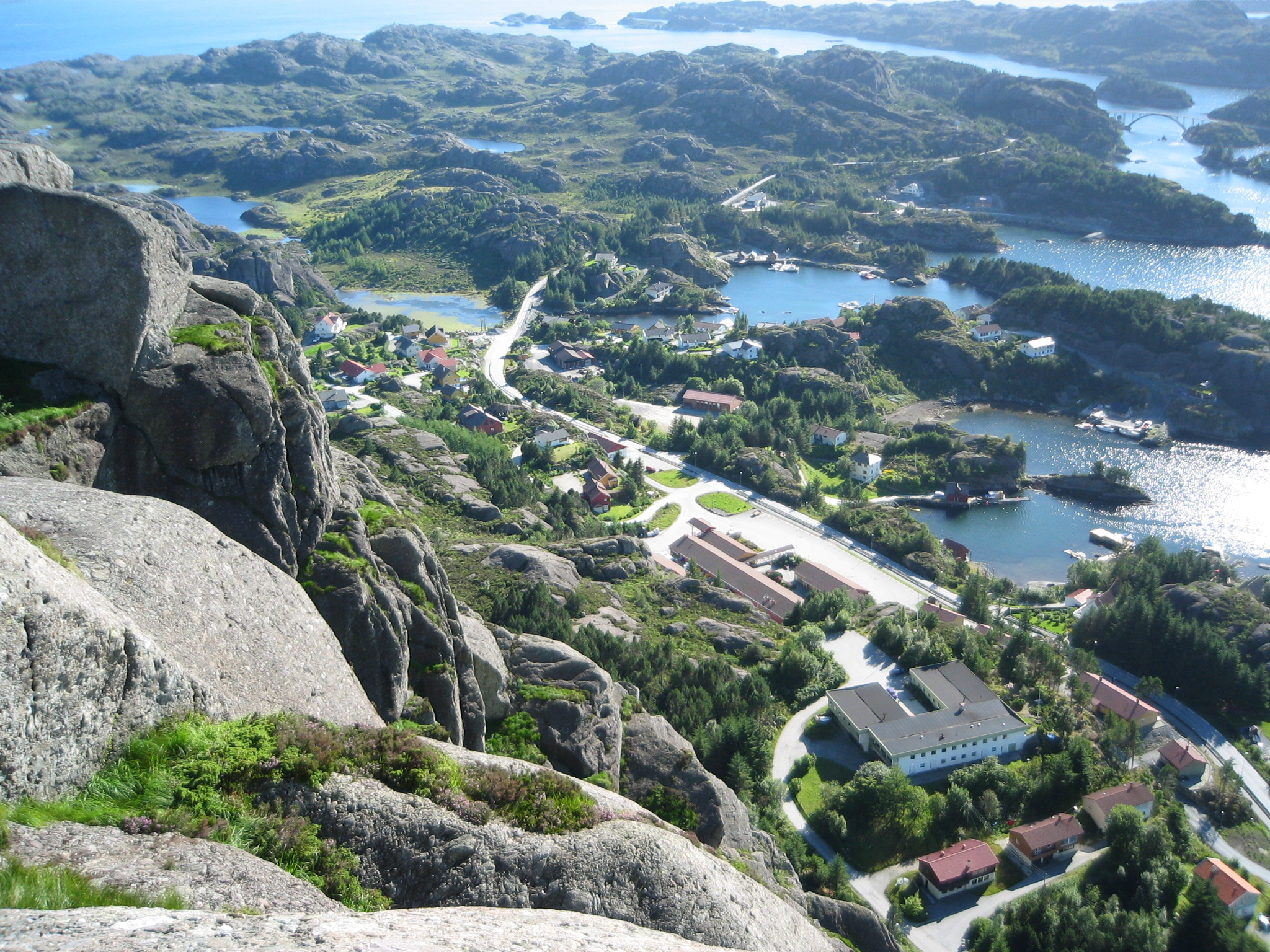 Hardbakke seen from Ravnenipa